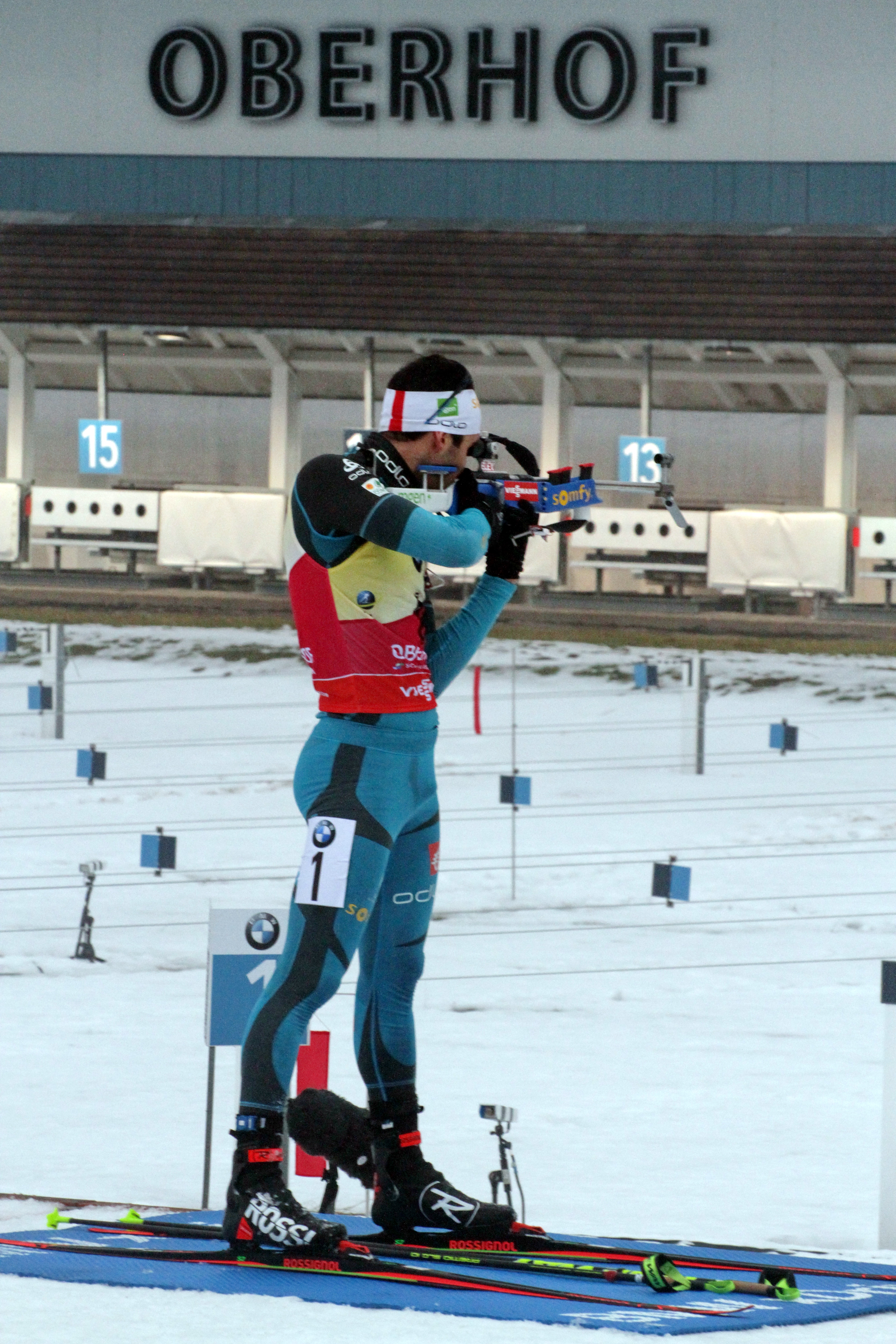 2018 Oberhof Biathlon World Cup - Pursuit Men